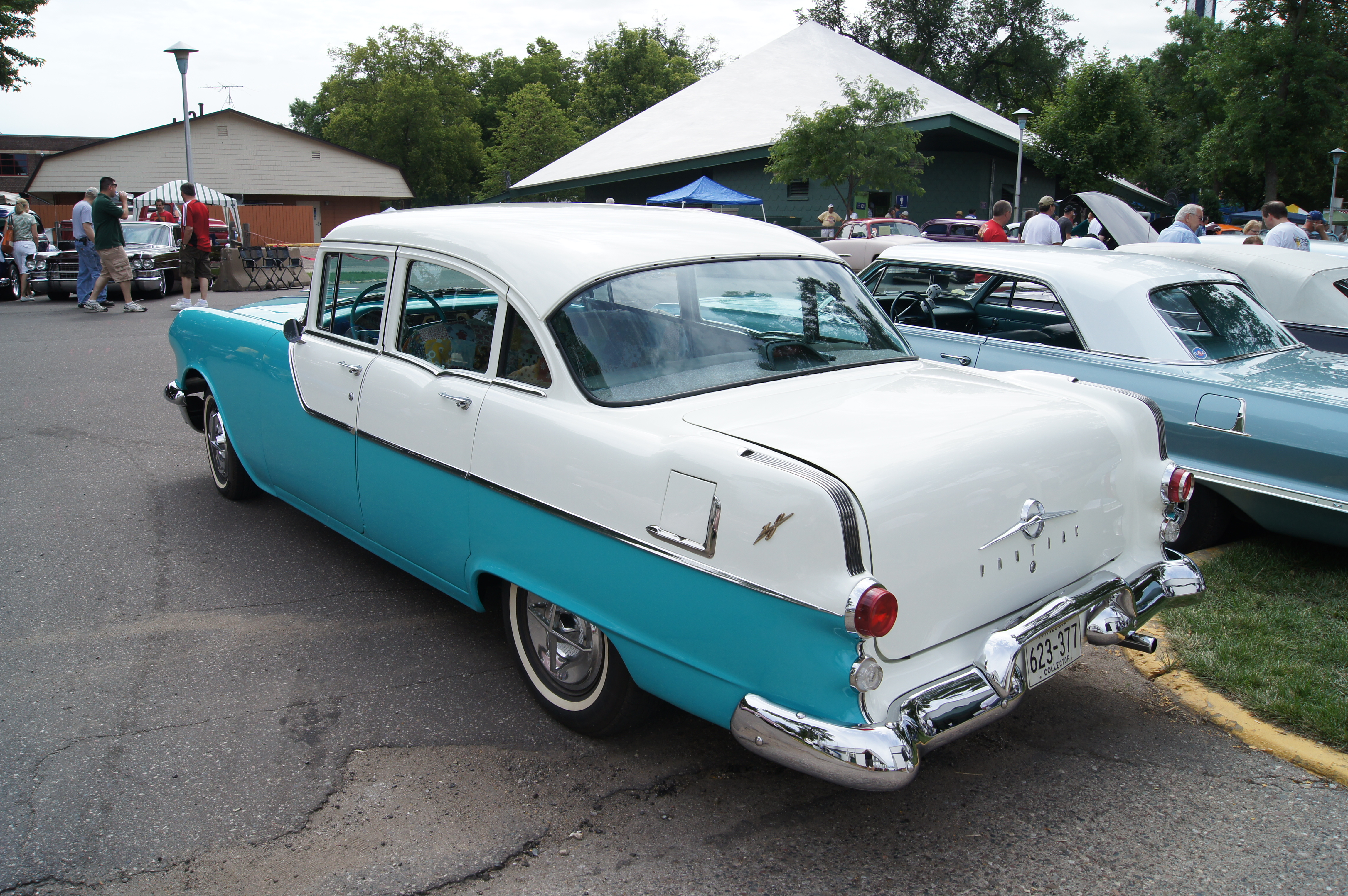 Minnesota Street Rod Association 39th Annual "Back to the Fifties" June 2012 Minnesota State Fairgrounds St. Paul MN